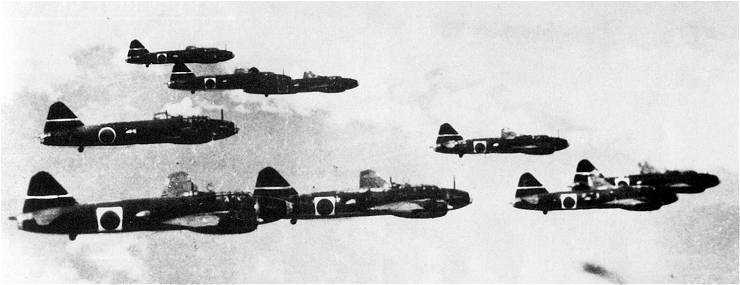 Mistsubishi G4M1 ("Betty") bombers flying in formation